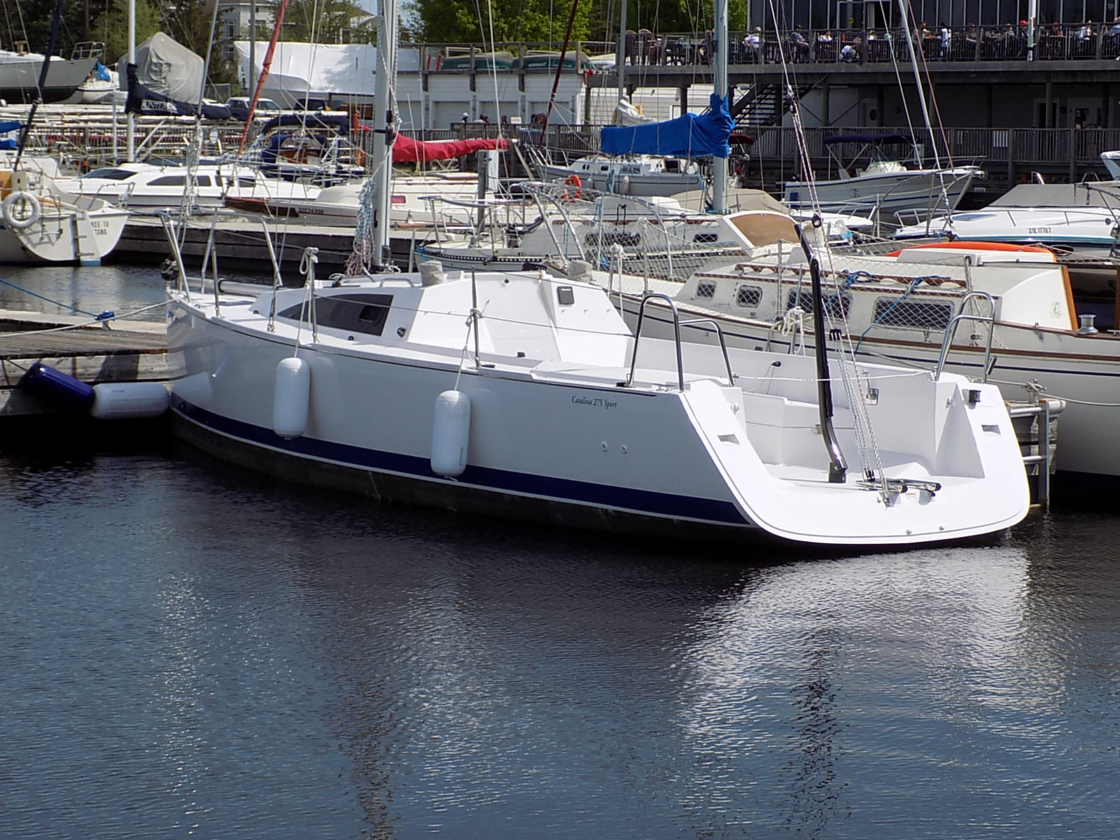 A Catalina 275 Sport sailboat named Wasa, showing the open transom.